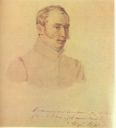 Russian Decembrist Baron A. E. Rosen